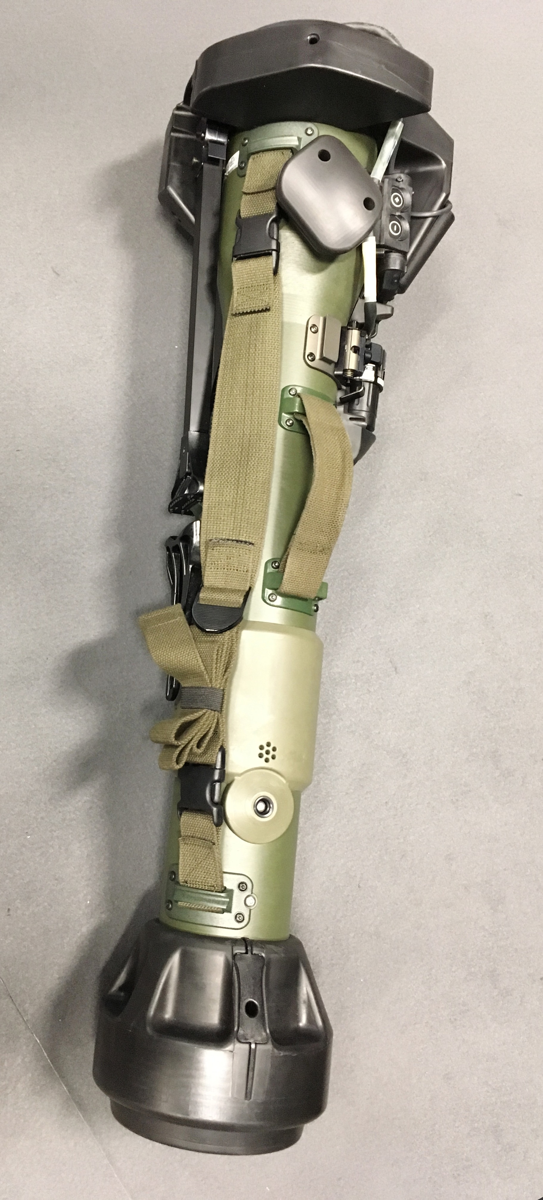 NLAW Short-Range Anti-Tank-Guided Missile